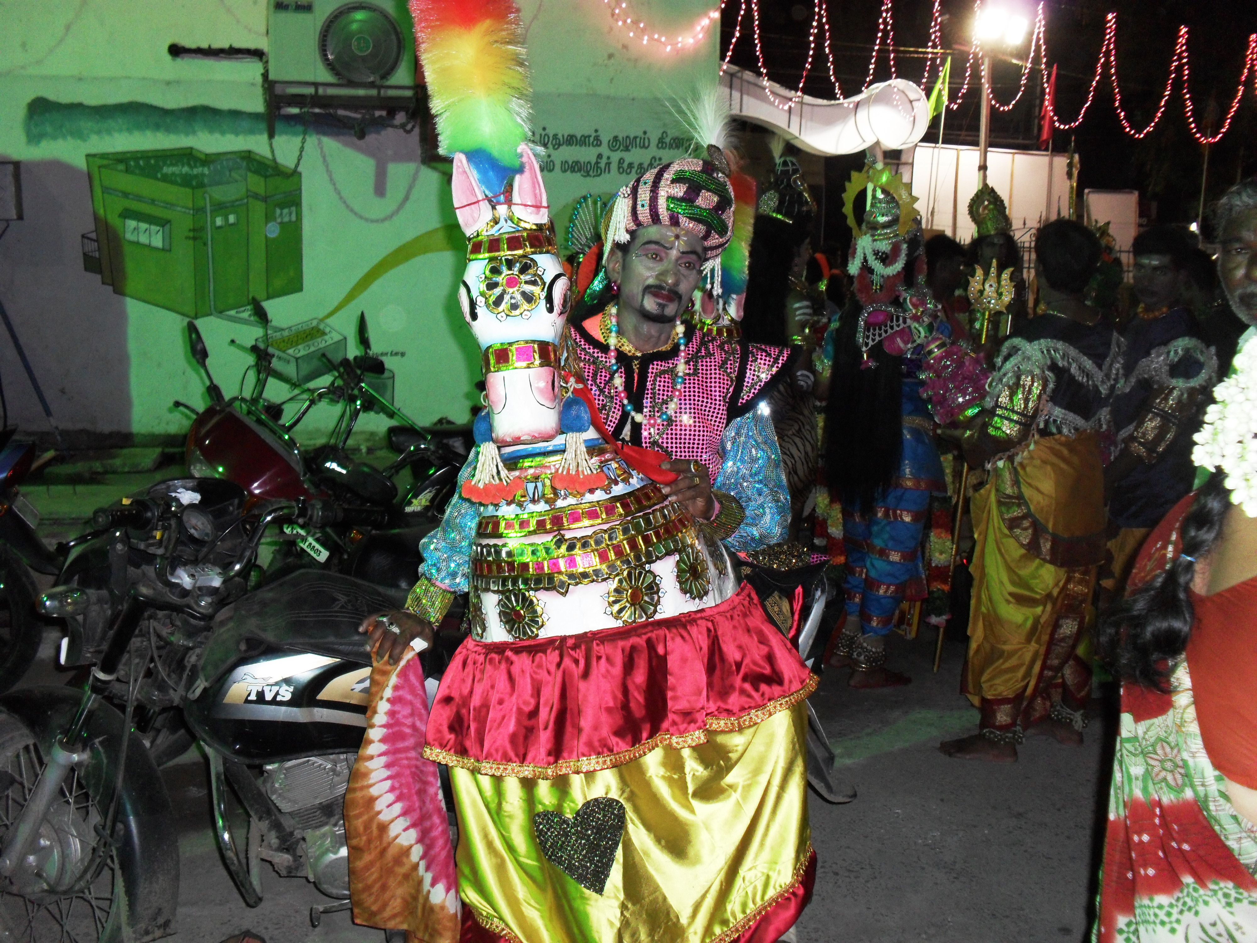 False horse leg dance is a dance form in Tamil Nadu. Photo taken during first world classical Tamil conference, Coimbatore